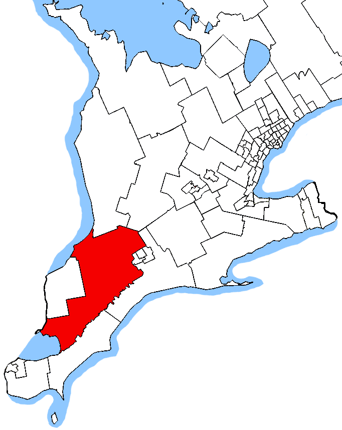 Map of the Lambton—Kent—Middlesex electoral district. Based on Earl Andrew's maps, created by SimonP.